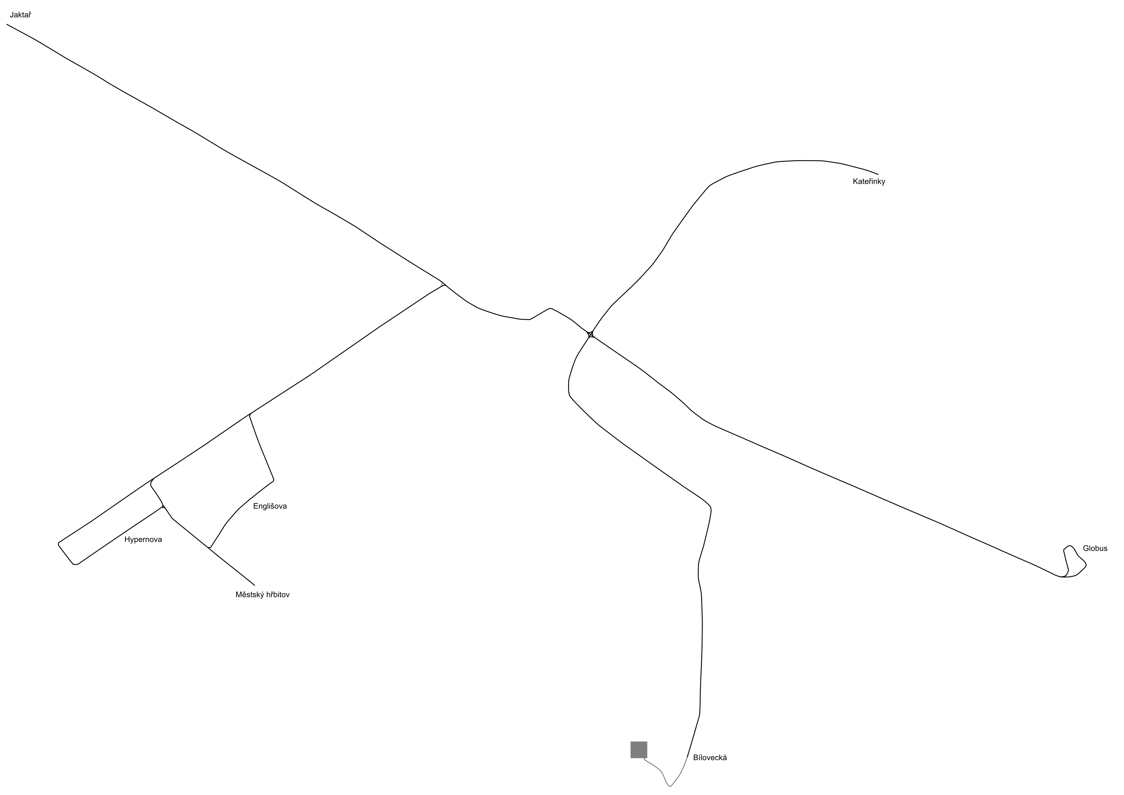 Trolleybus network in Opava (situation in 2009), Czech Republic